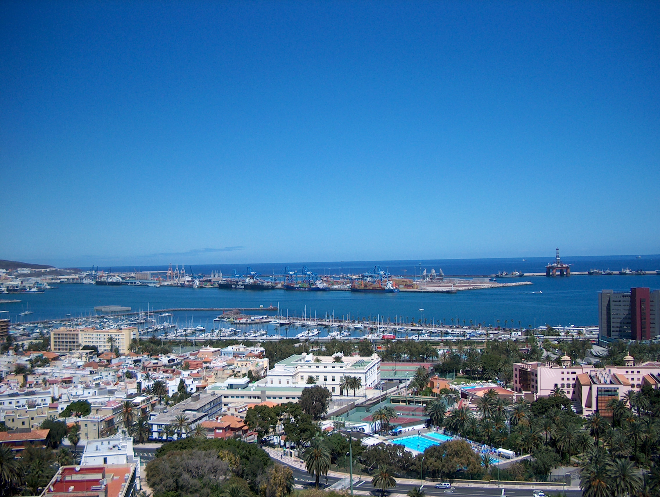 Panoramic view over the city of Las Palmas de Gran Canaria (Gran Canaria). Canary Islands, Spain.